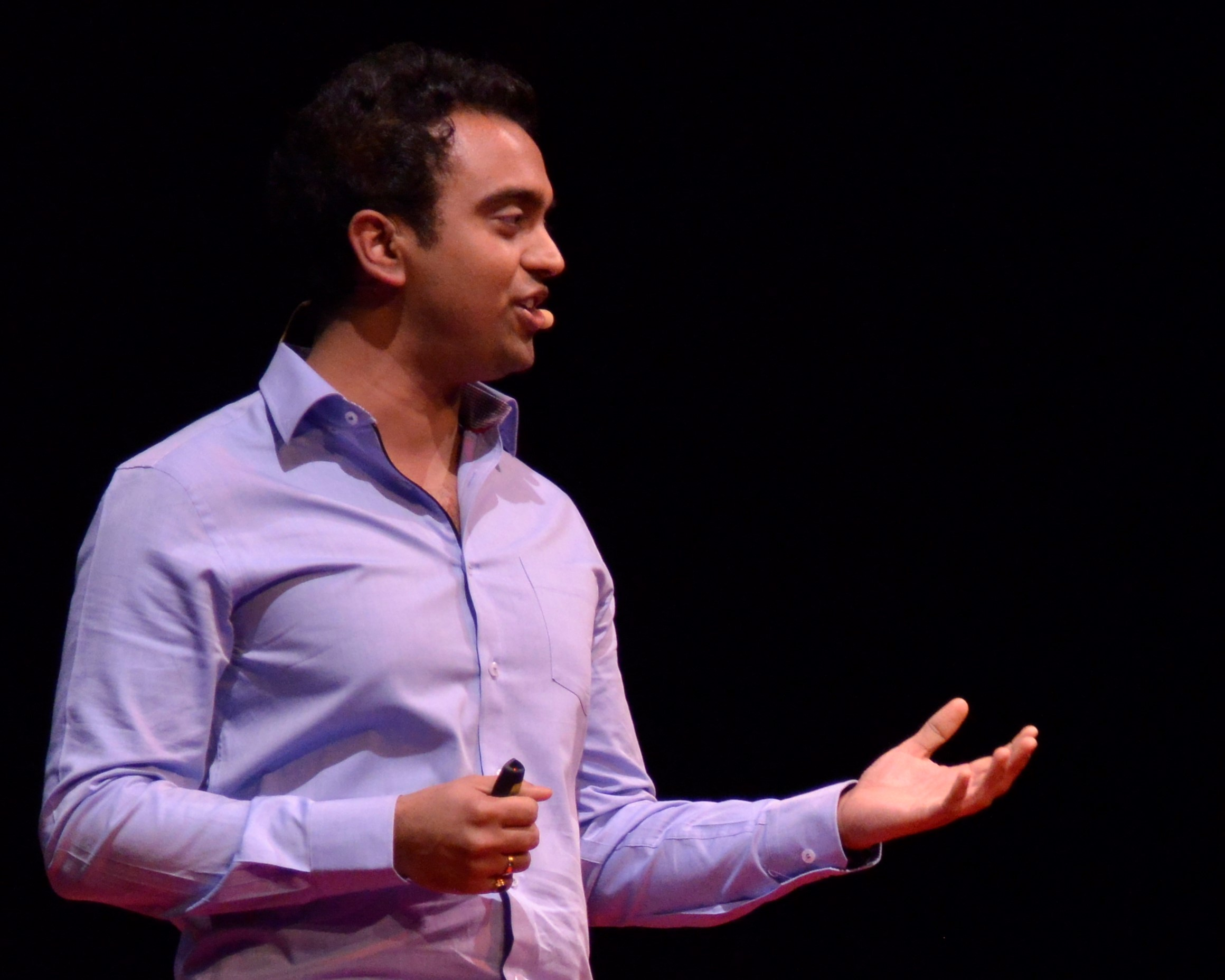 Tej Tadi at TEDx Lausanne 2014